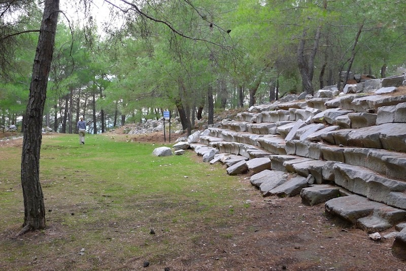 Gymnasion of Kadyanda, Turkey